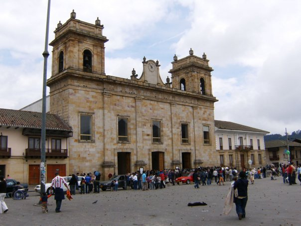 Cathedral of Facatativa (Colombia)